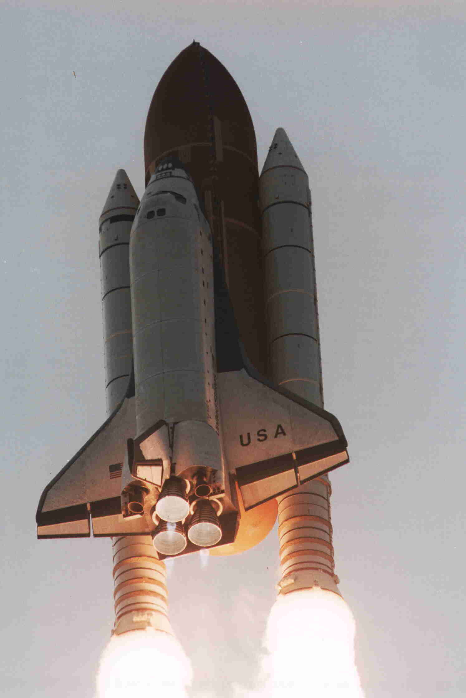 The Space Shuttle Columbia hurtles skyward from Launch Pad 39B. Columbia lifted off right on time at 3:18:00 p.m. EST, Feb. 22, following a smooth countdown. NASA's second Shuttle mission of 1996 and the 75th overall in Shuttle program history will be highlighted by the re-flight of the Tethered Satellite System (TSS-1R) designed to investigate new sources of spacecraft power and ways to study Earth's atmosphere. Mission STS-75 also will see Columbia's seven-person crew work with the U.S. Microgravity Payload (USMP-3), which continues research efforts into development of new materials and processes that could lead to a new generation of computers, electronics and metals. The STS-75 crew includes: Mission Commander Andrew M. Allen; Pilot Scott J. "Doc" Horowitz; Payload Commander Franklin R. Chang-Diaz; Mission Specialists Jeffrey A. Hoffman, Claude Nicollier and Maurizio Cheli; and Payload Specialist Umberto Guidoni. Nicollier and Cheli represent the European Space Agency (ESA) while Guidoni represents the Italian Space Agency (ASI).